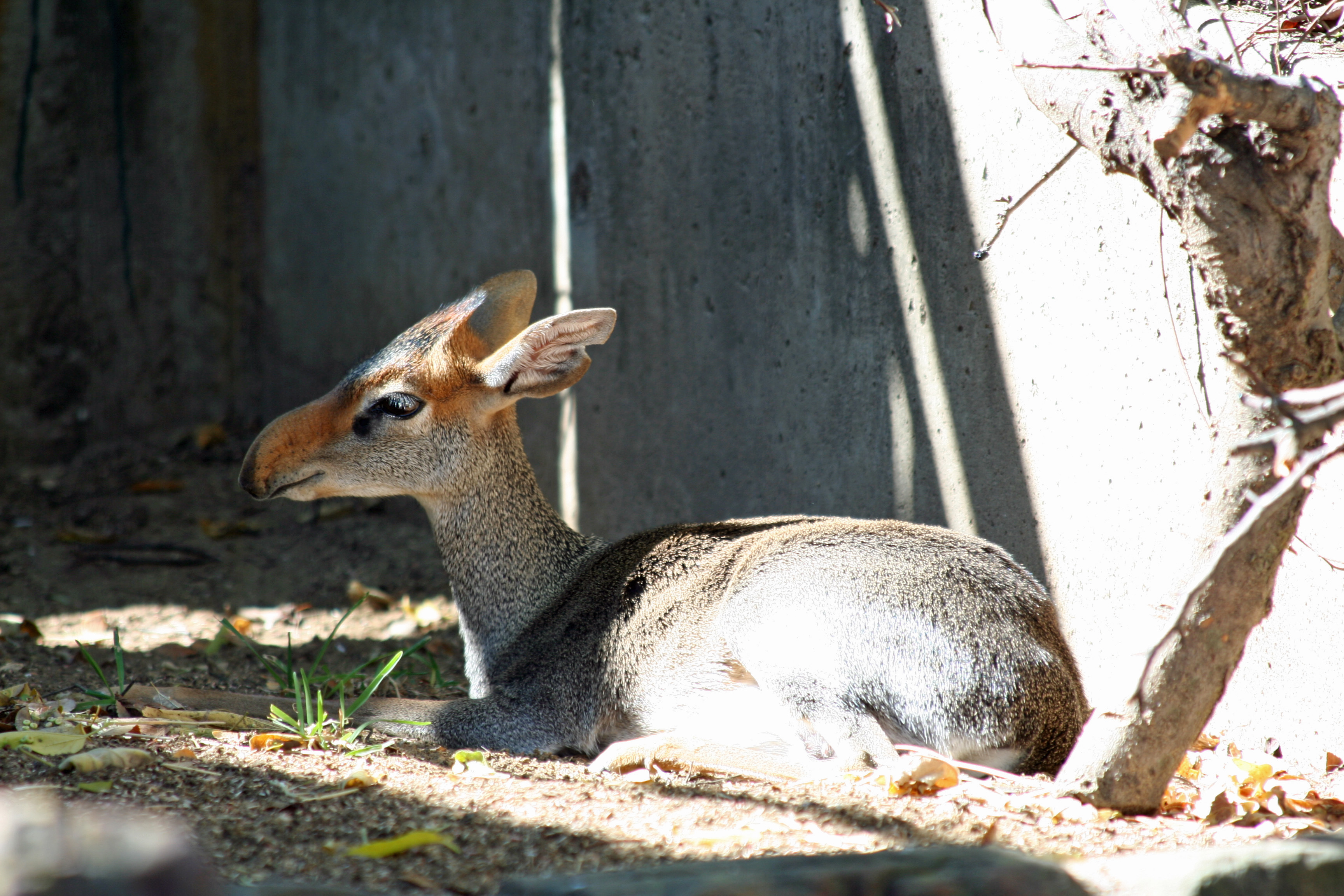 Madoqua guentheri